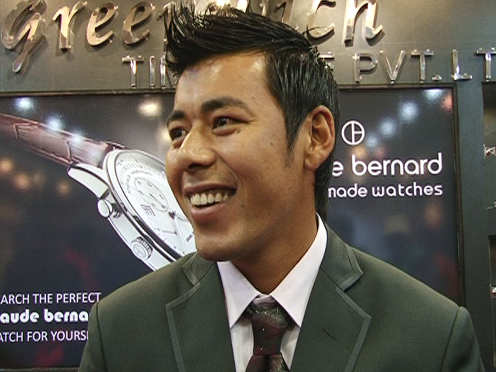 A Football player of Nepali national team.